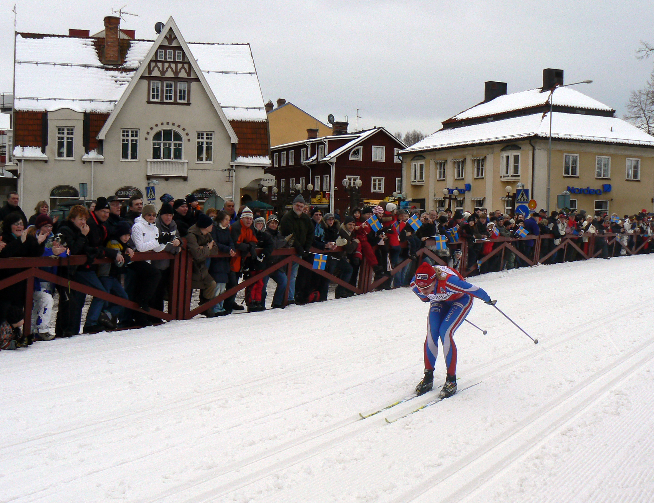 Swedish skier Elin Ek. Straightening, level adjustment, and cropping of PD original.